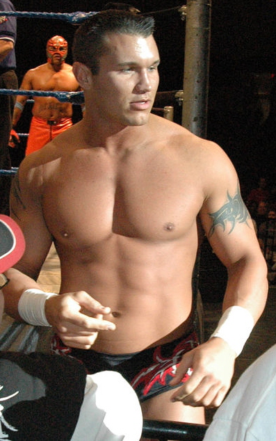 WWE wrestling 8-29-05 charleston sc